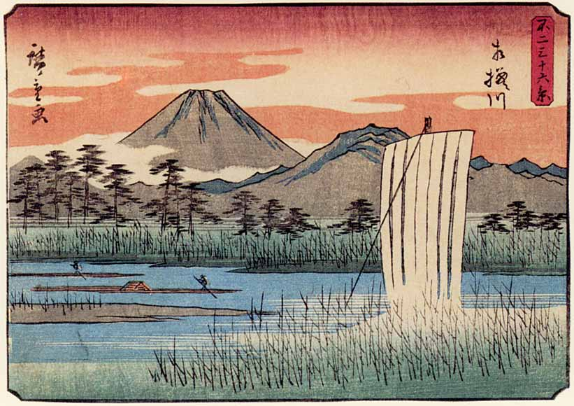 Sagami River (Japanese: 相模川, Sagamigawa). No. 18[1] (or No. 12[2]) in the series Thirty-six Views of Mount Fuji (first version).